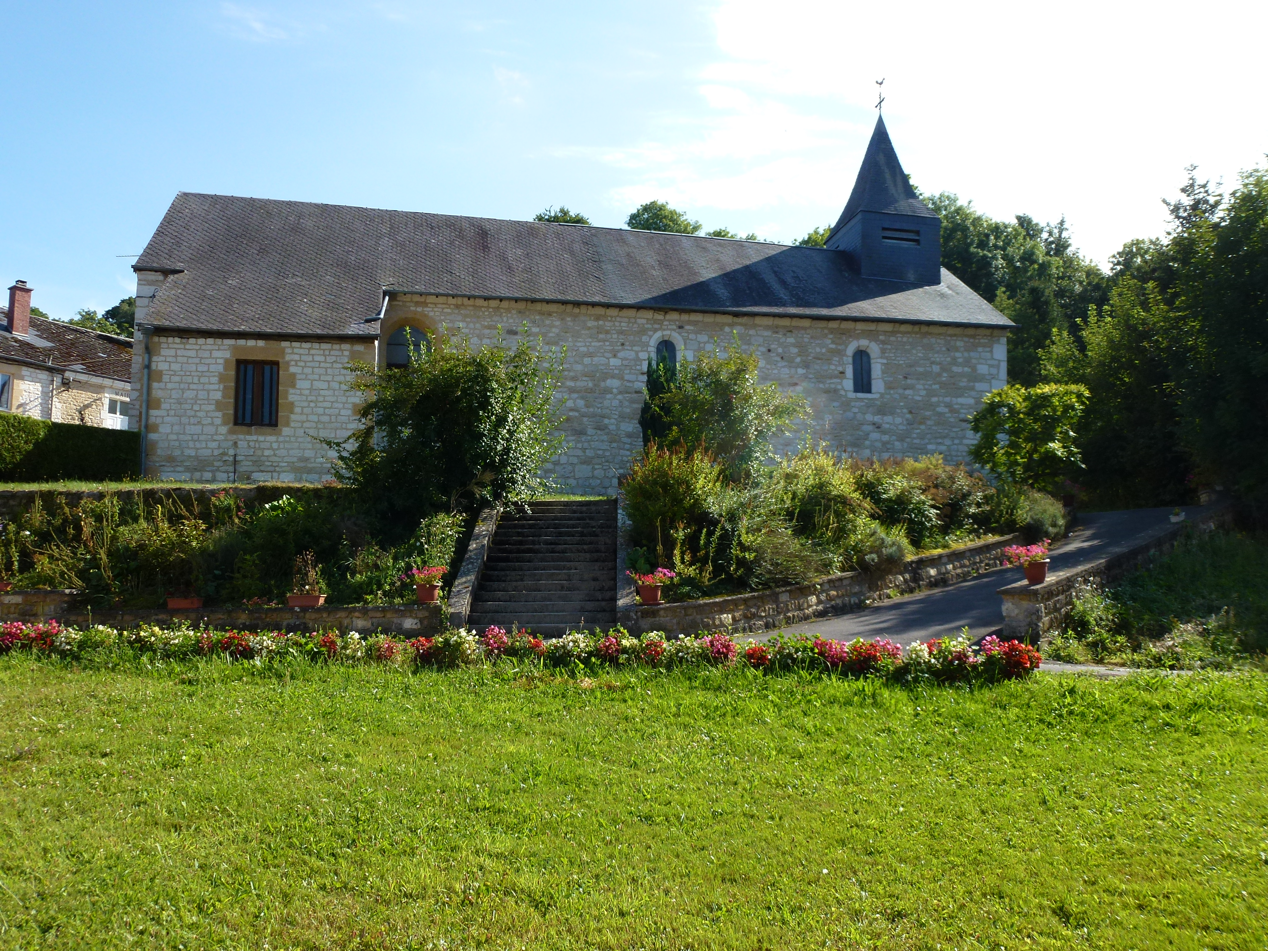 Lépron-les-Vallées (Ardennes) église